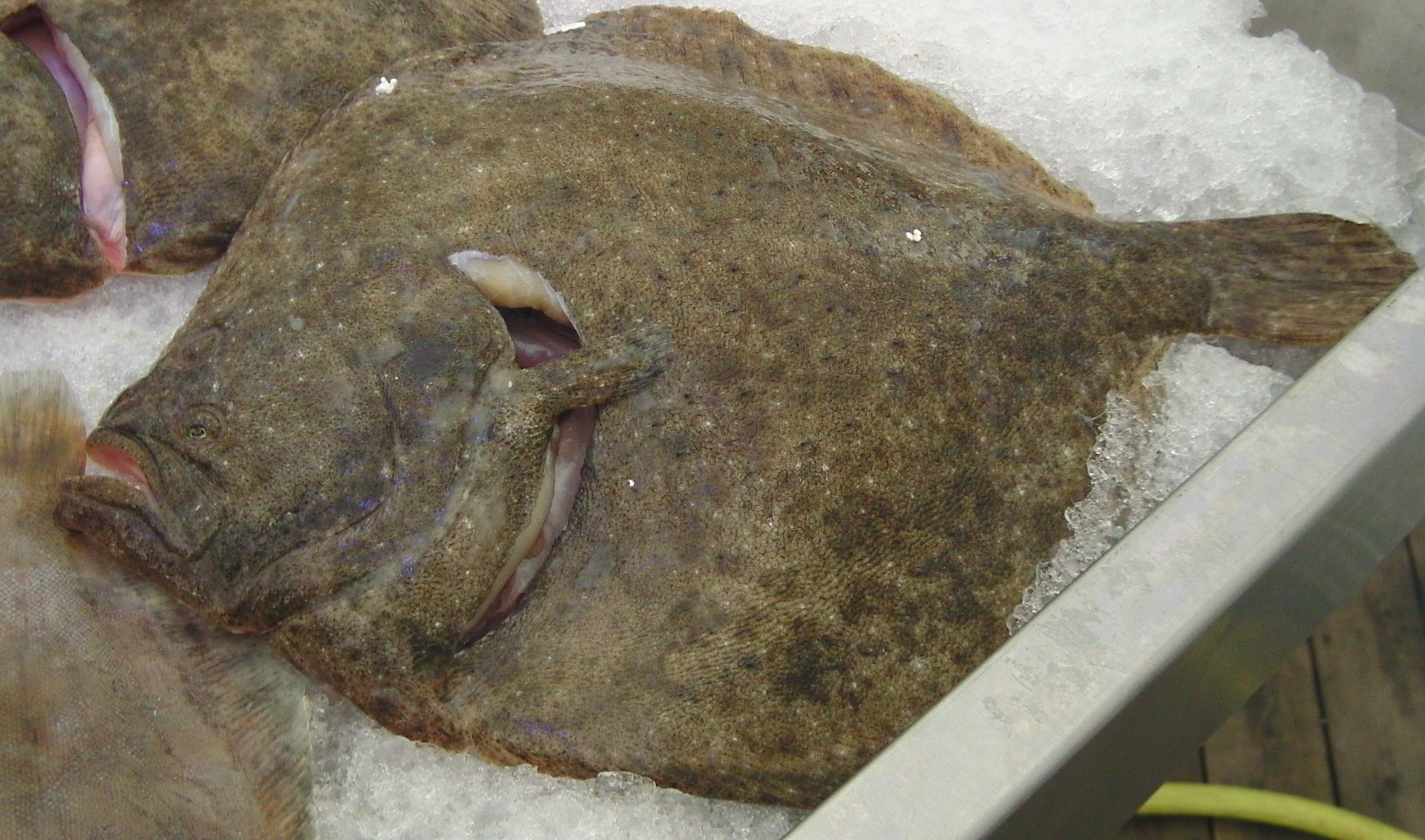 A turbot